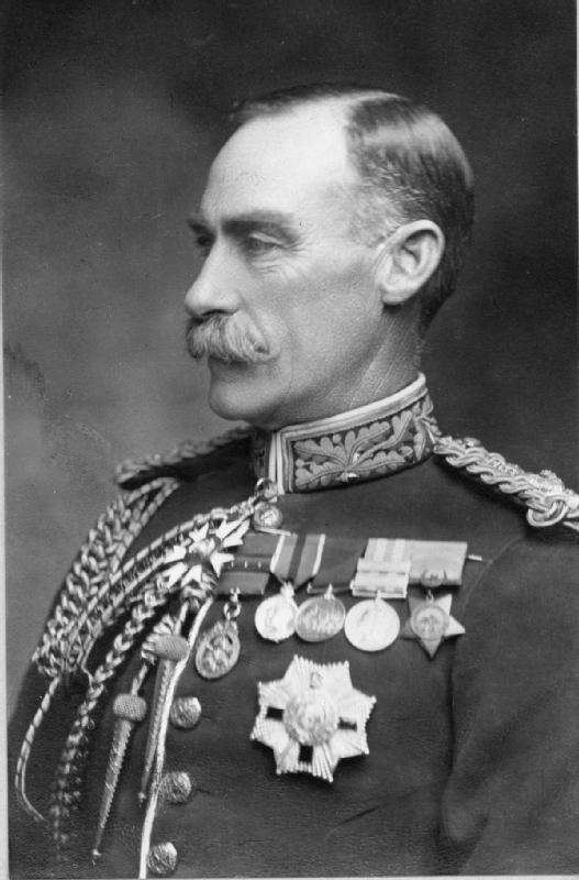 Portrait of General Sir Percy Lake.